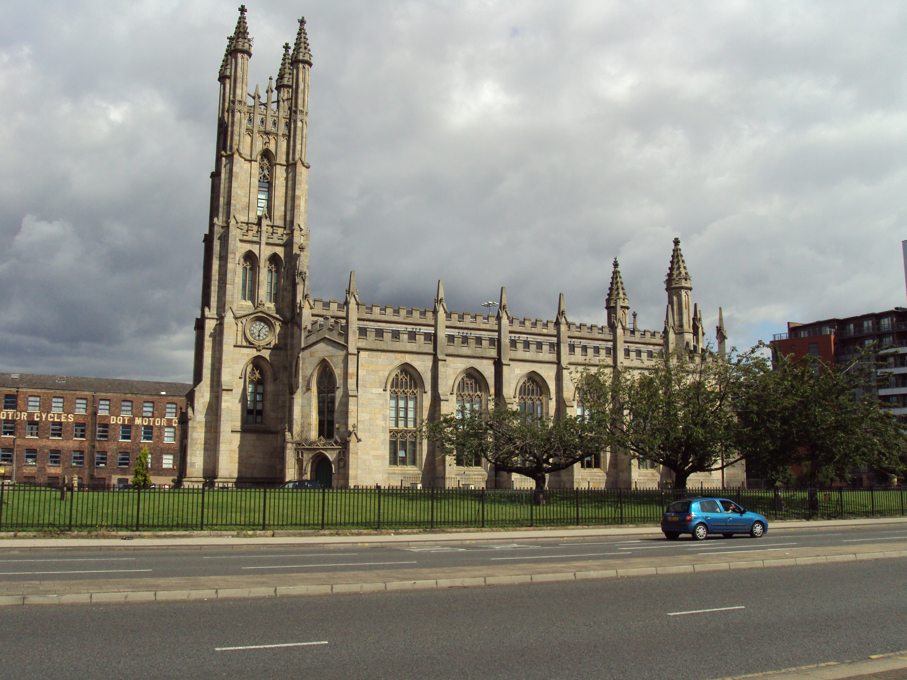 Former parish church of St George, Hulme, Manchester, seen from the south from the A56 Chester Road